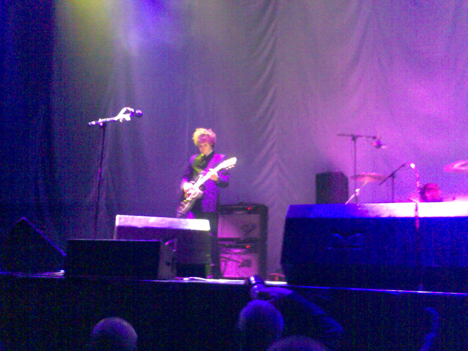 John Lawler, singer/guitarist from The Fratellis